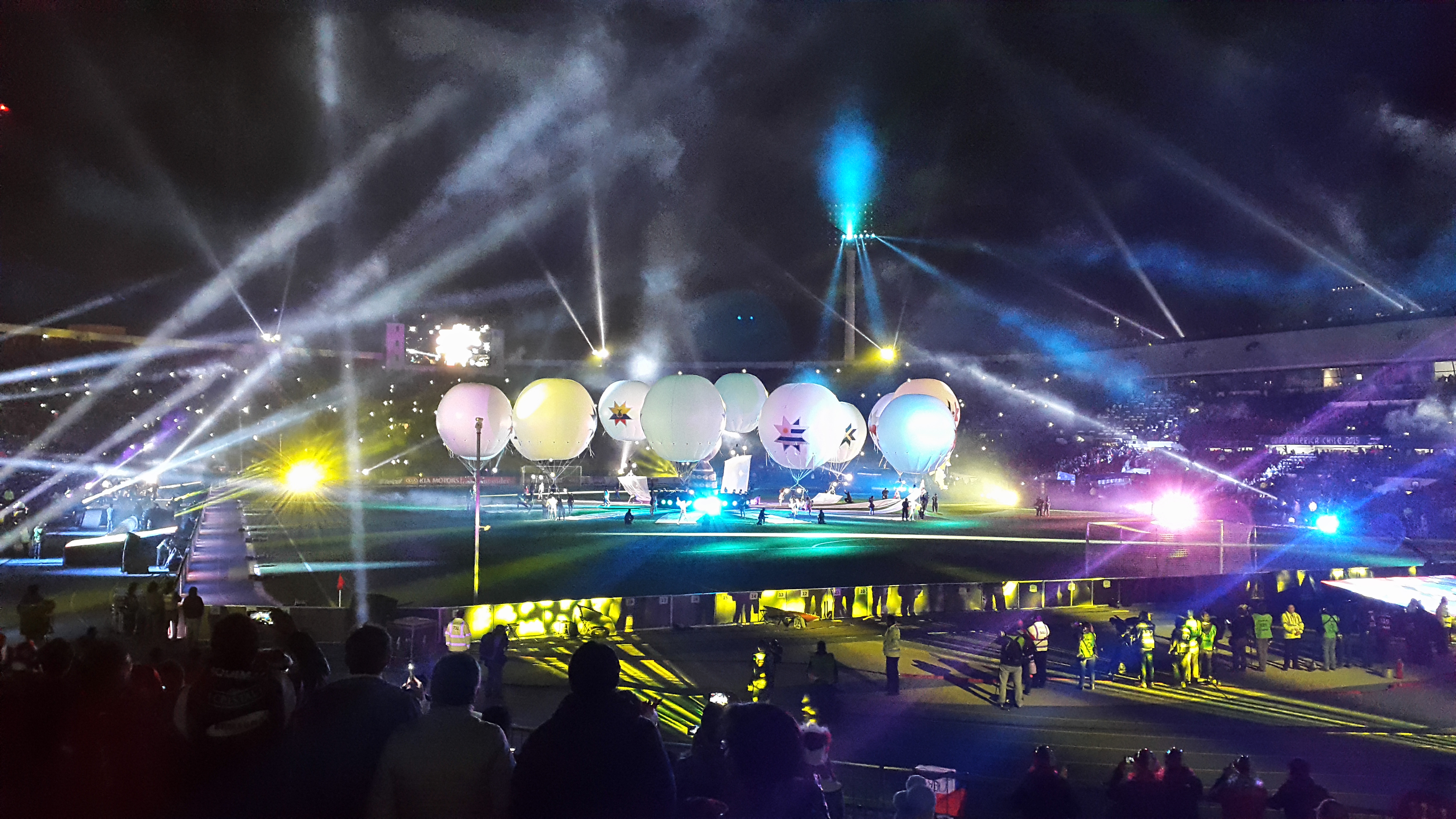 Opening ceremony of the 2015 Copa América, in the National Stadium in Santiago, Chile.